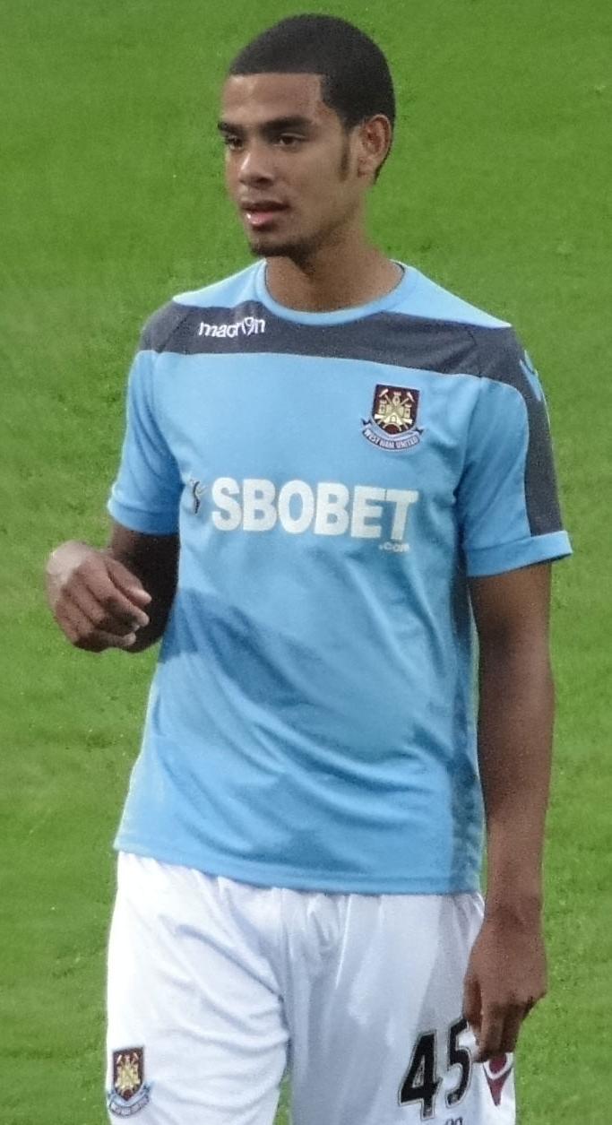 West Ham United footballer Paul McCallum warming-up before their League Cup game against Crewe Alexandra, August 2012 at The Boleyn Ground, London